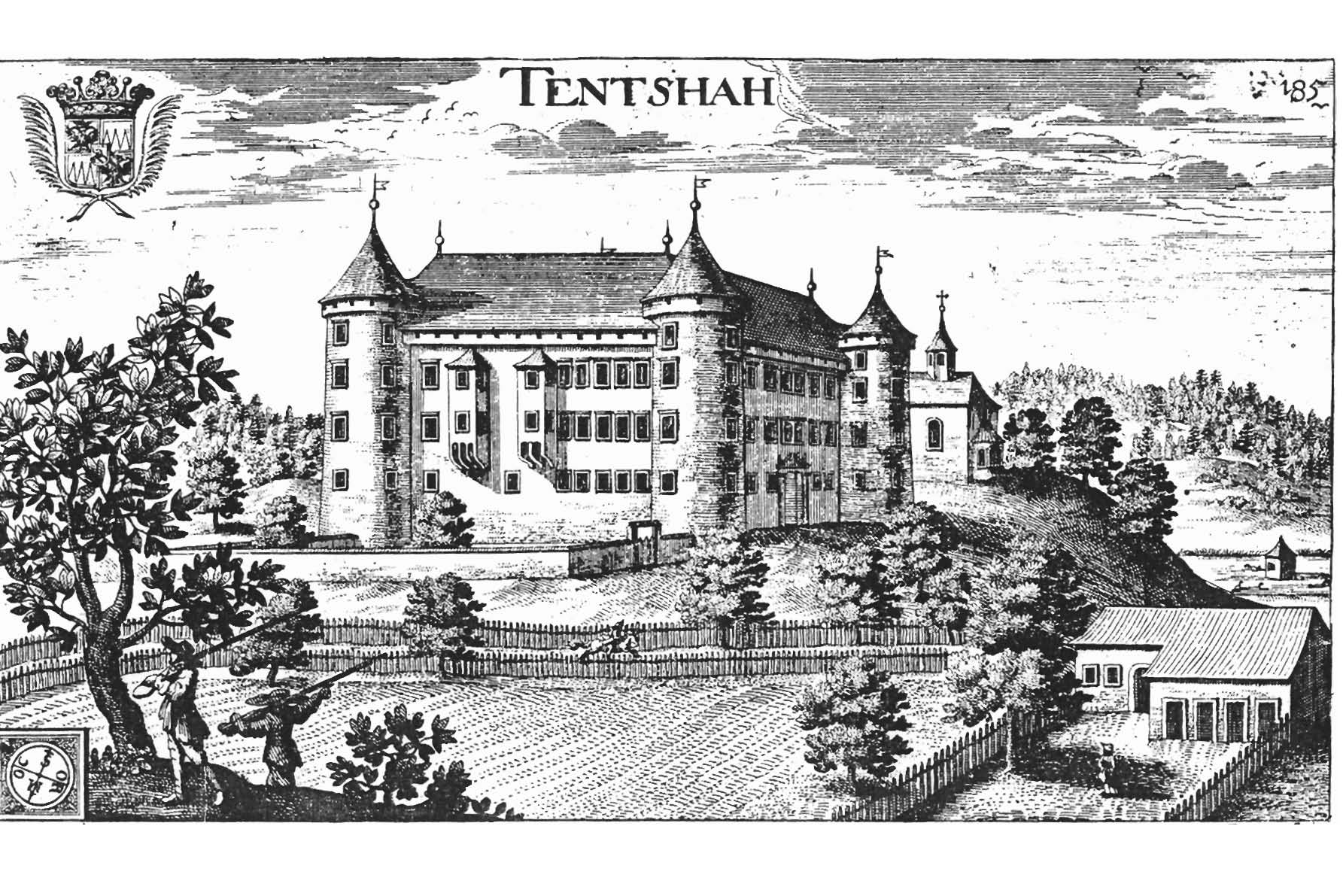 Castle of Tentschach in the Carinthian capital of Klagenfurt in Carinthia / Austria / European Union.